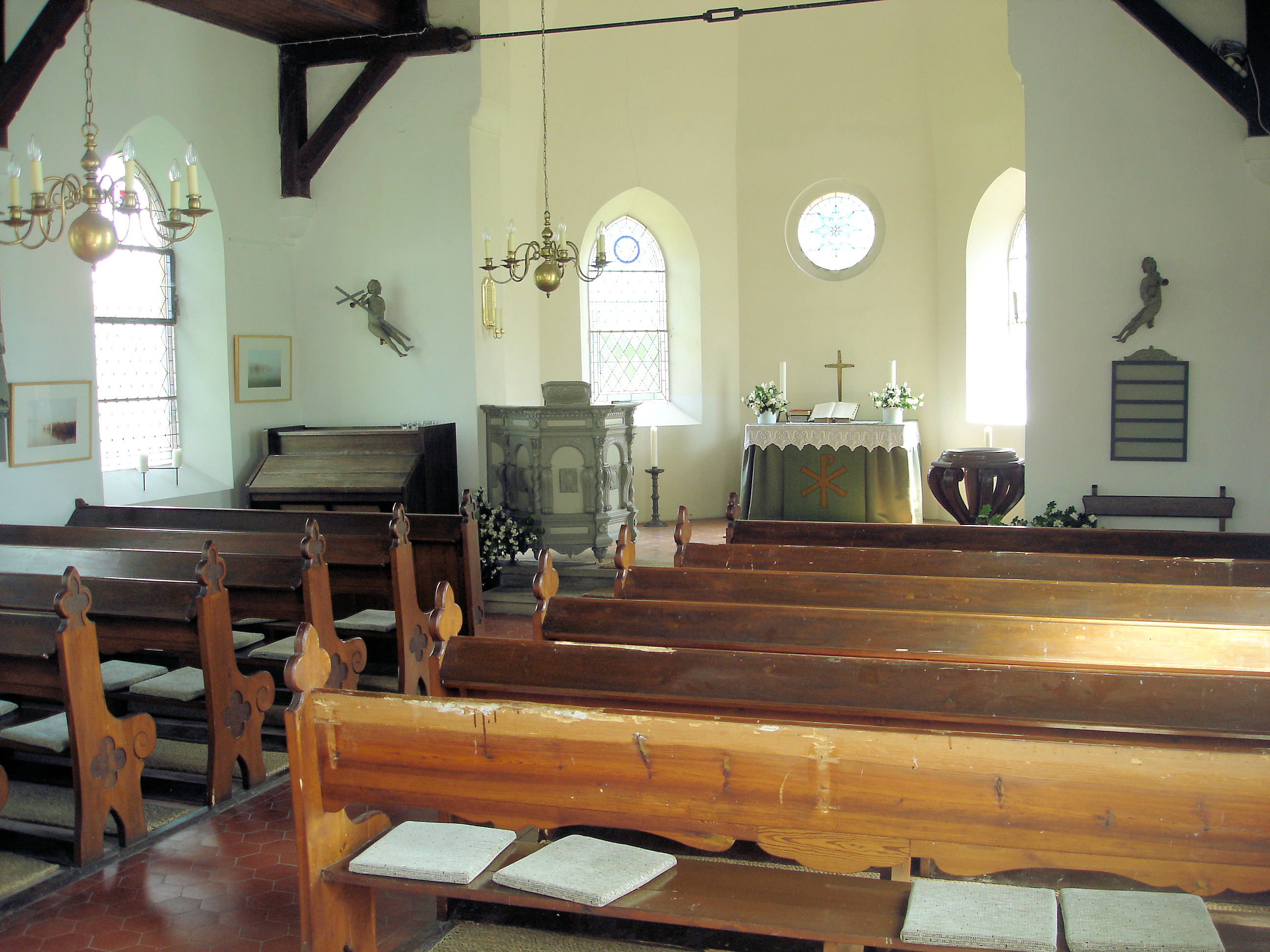 Church in Krümmel, Mecklenburg, Germany